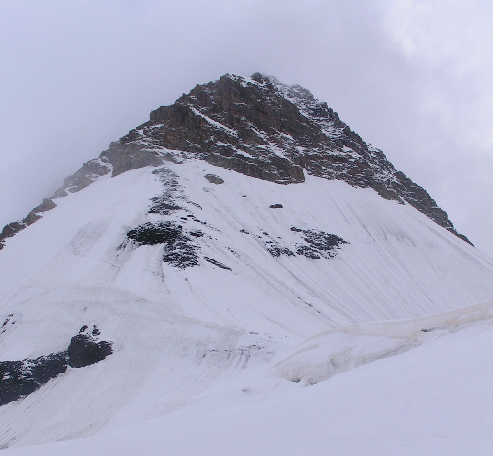 Lyalver Mount